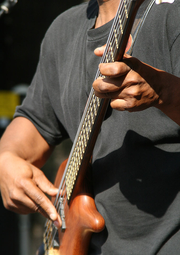 The Taj Mahal Trio (Taj Mahal - voc., git. , banjo, keys; Bill Rich - bass; Kester Smith - drums) at the Museumsquartier in Vienna (Jazz-Fest Wien)